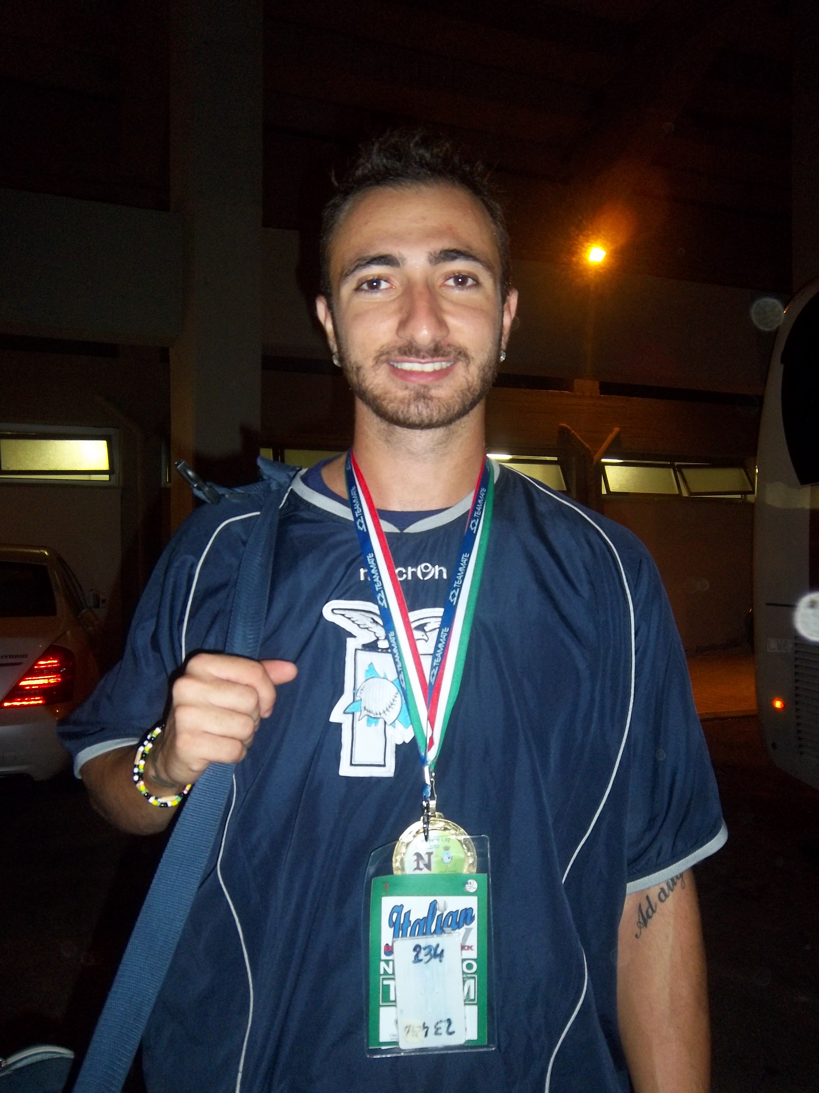 Luca Panerati with the gold medal of the European Cup 2012 Final Four won by Fortitudo Baseball Bologna in Nettuno on 30 August 2012.